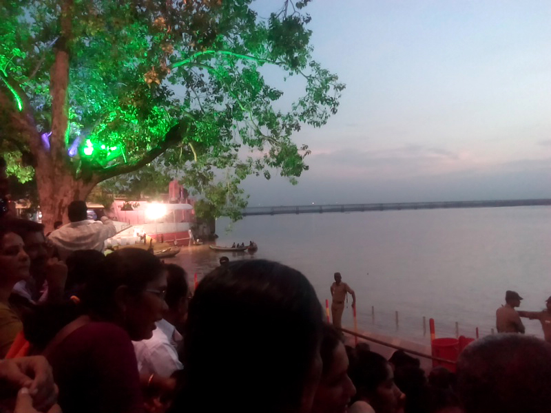 Rajamandry Godavari Pushkaralu 2015 (Godavari Kumbhamela)